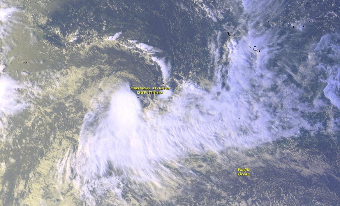 Satellite image of Tropical Cyclone Trina on November 30, 2001